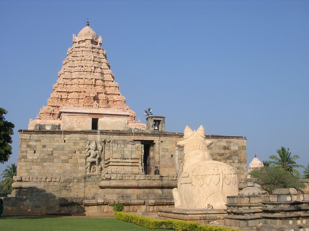 Temple at Gangaikonda Cholapuram